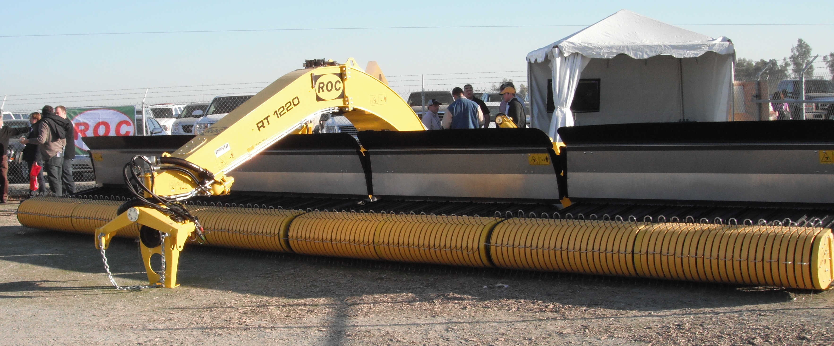 ROC RT-1220 continuous merger (belt merger, pick-up belt rake, windrow merger) at World Ag Expo 2011. This machine has a working width of 12,2m and a weight of ca. 5900 kg. It is usually tractor-driven (mounted on the rear three-point linkage) and picks up and merges windrows. The black conveyor belt behind the yellow drum moves and drops the harvest to one side of the machine.